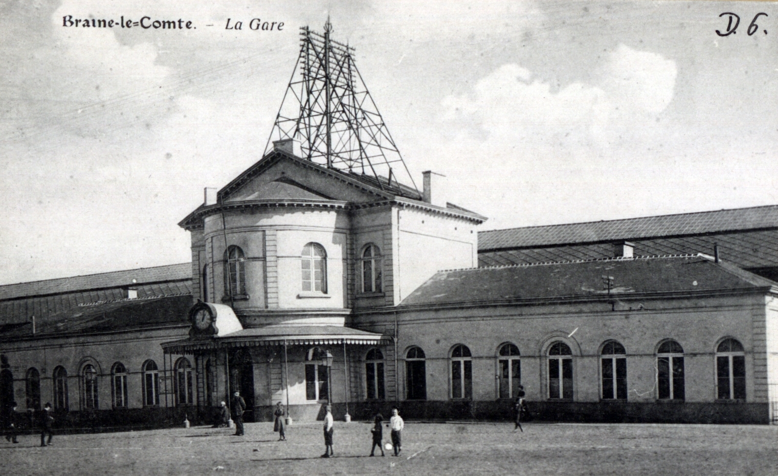 About the item Record Title [image] Braine-le-Comte. La gare. Publisher [eind 19e-begin 20e eeuw]. Object ID :BDF2EBA2-9F72-11DF-AD95-CD42C2C209CF Attribution Provided by Ghent University Library License